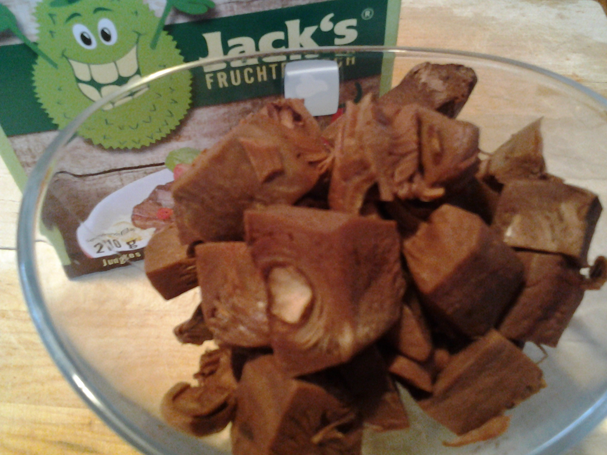 jackfruit has the look and texture of meat